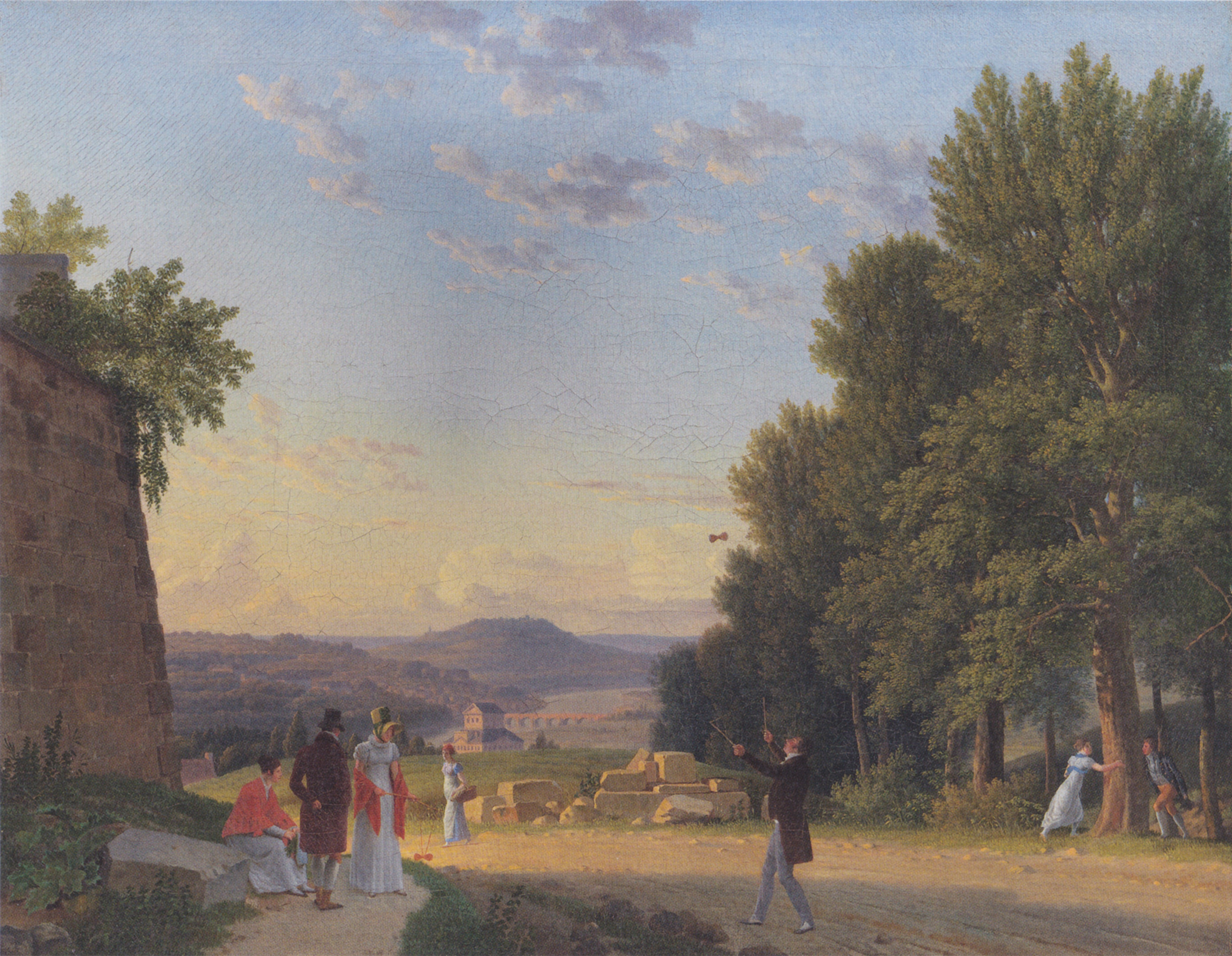 A View from the Château of Meudon.